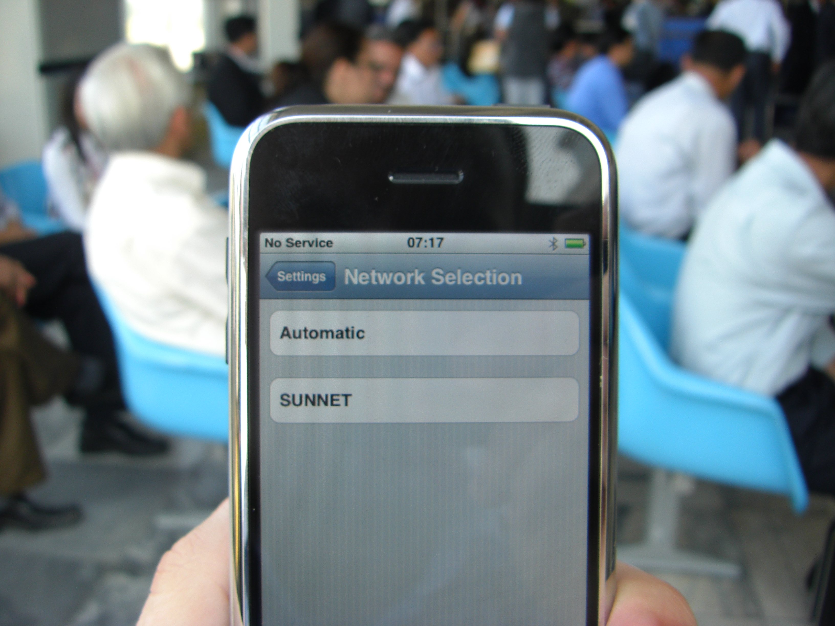 No roaming in North Korea :(